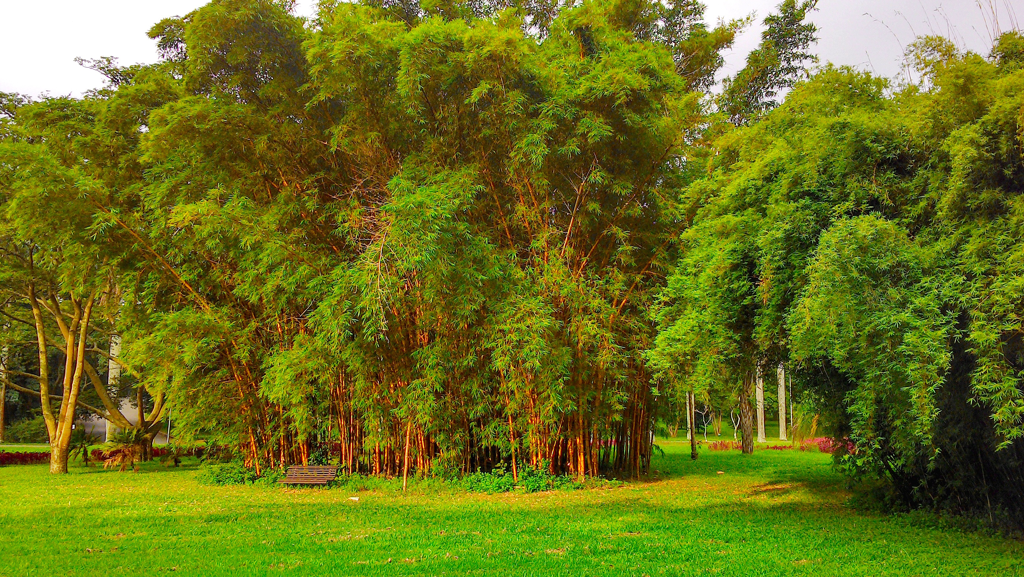 Bambusa vulgaris bamboos at the Botanical Garden of São Paulo (São Paulo city, SP, Brazil).